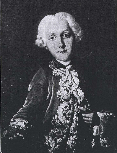 Anonymous drawing of the Prince of Lamballe